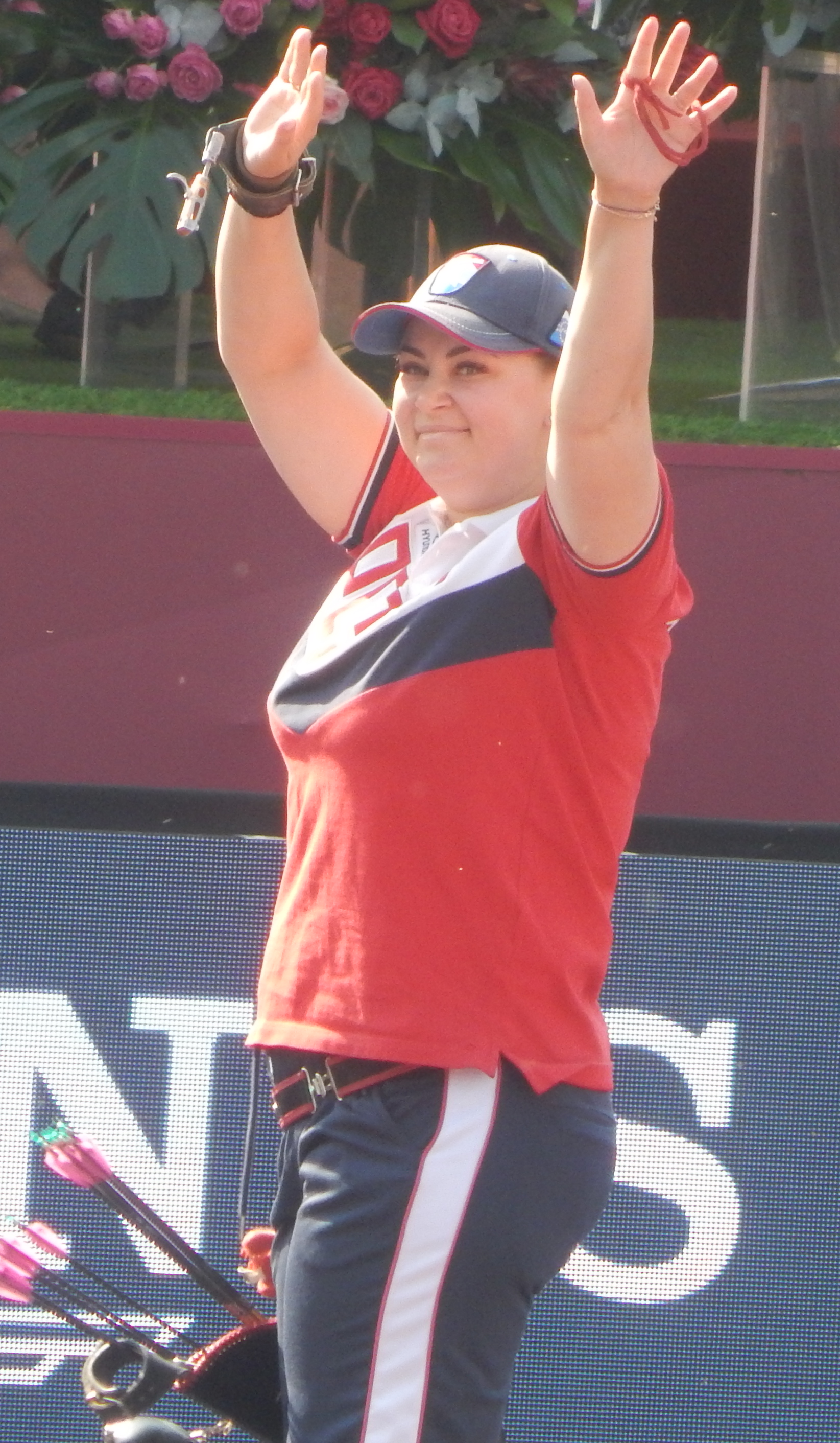 2019 Archery World Cup Final in Moscow. Women's compound.